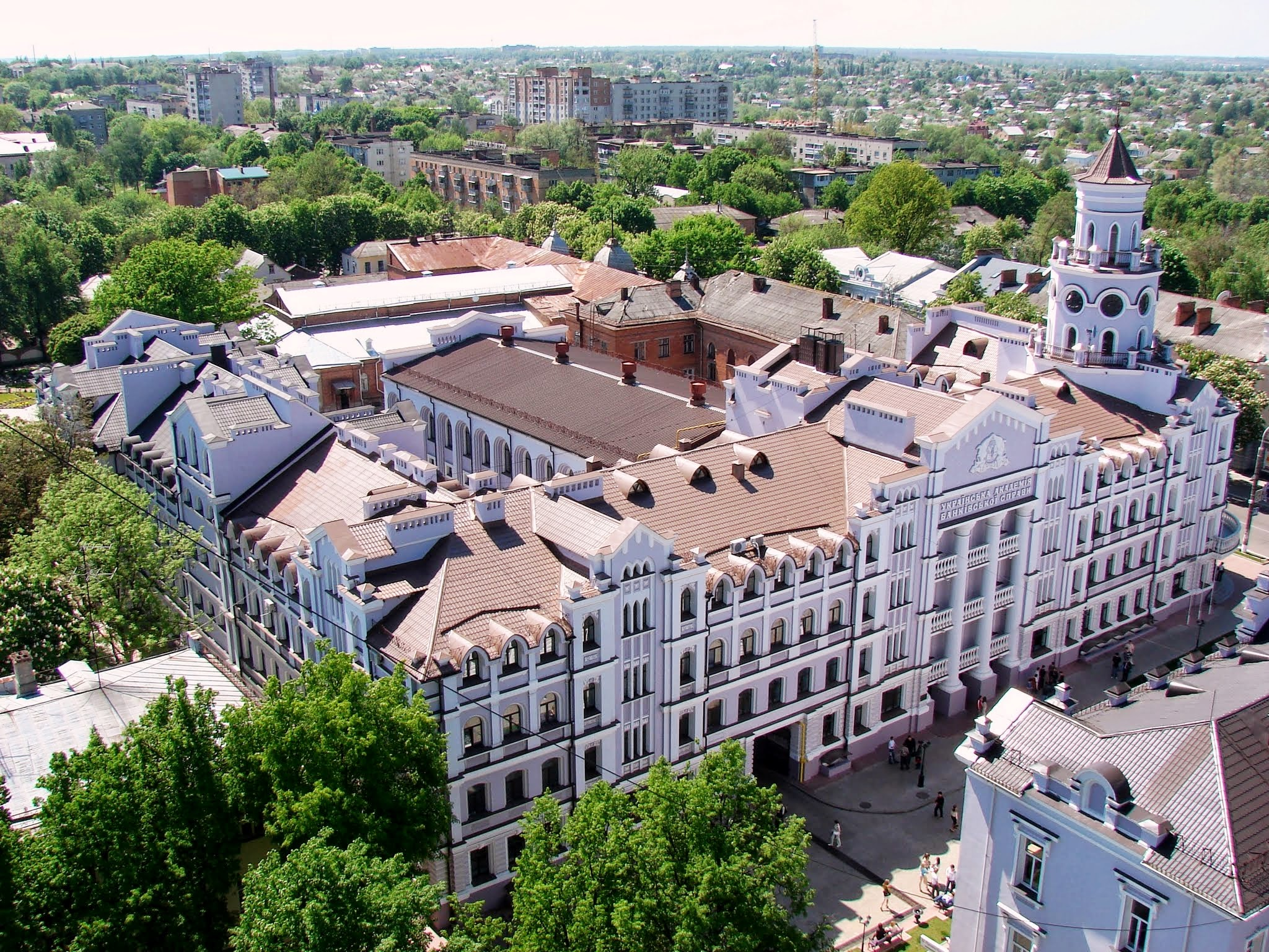 Ukrainian Academy of Banking of the National Bank of Ukraine, Sumy, Ukraine